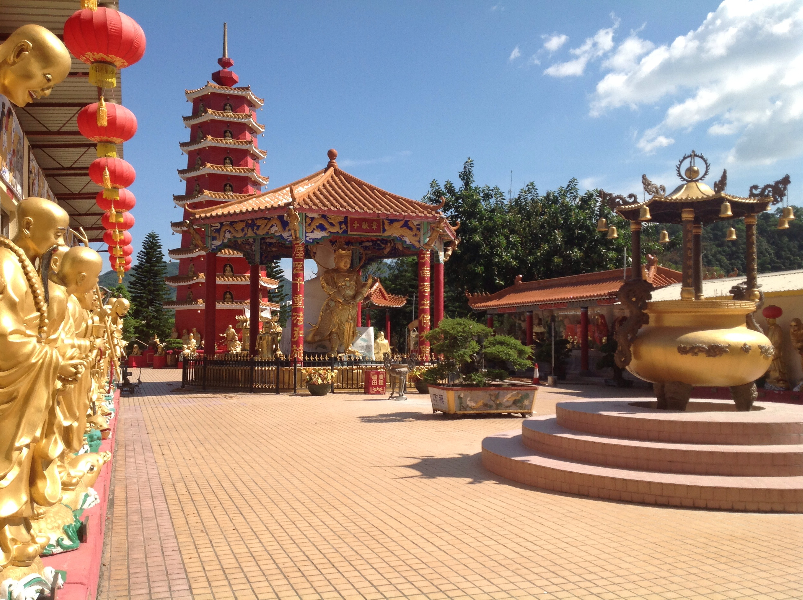 Man Fat Tsz Pagoda